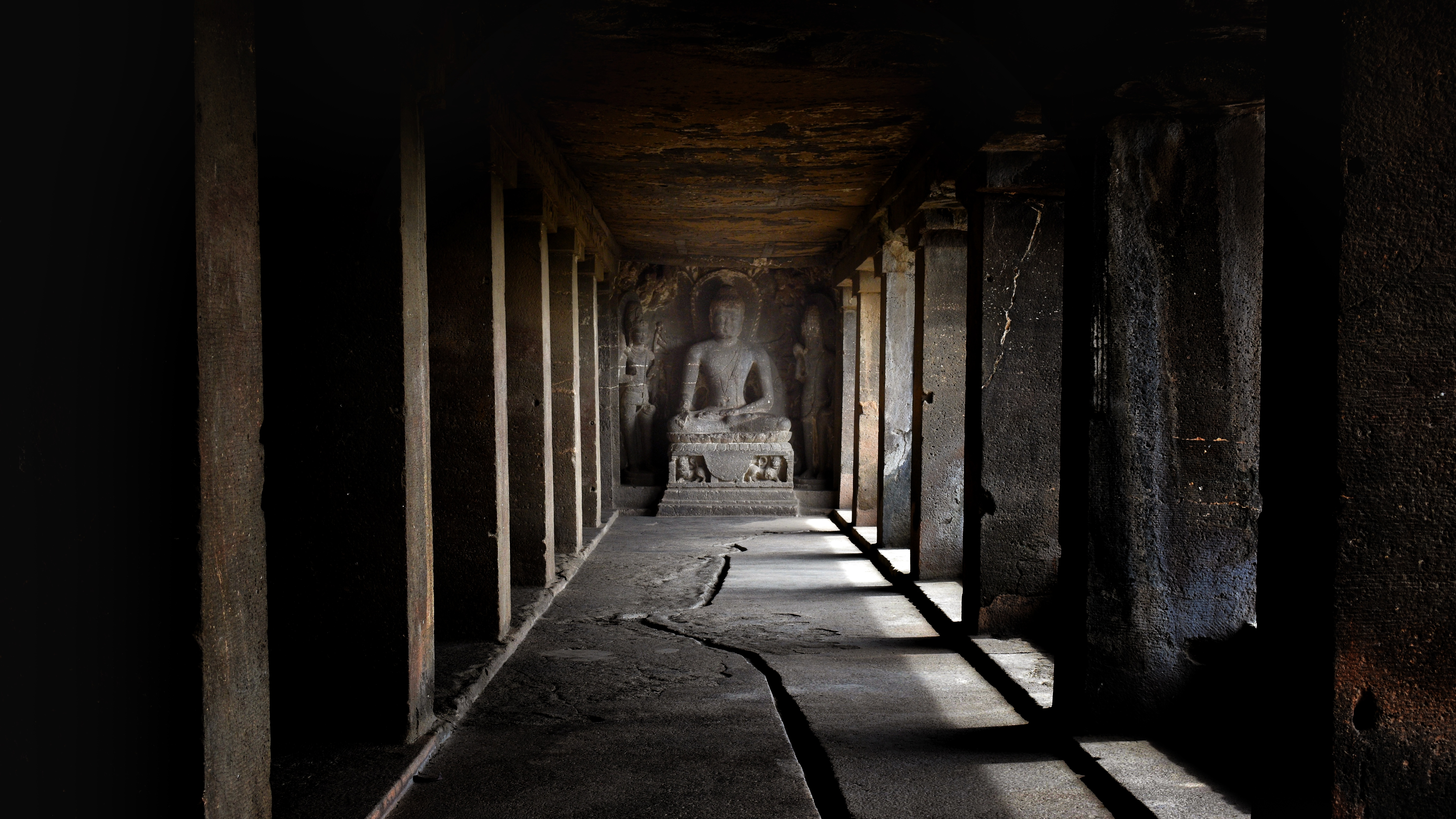 Ellora Caves no. 12 Three stories (Teen taal) structure. Having 30 pillars at ground floor, With beautiful sculpture of Lord Buddha surrounded by attendants. Ellora Caves